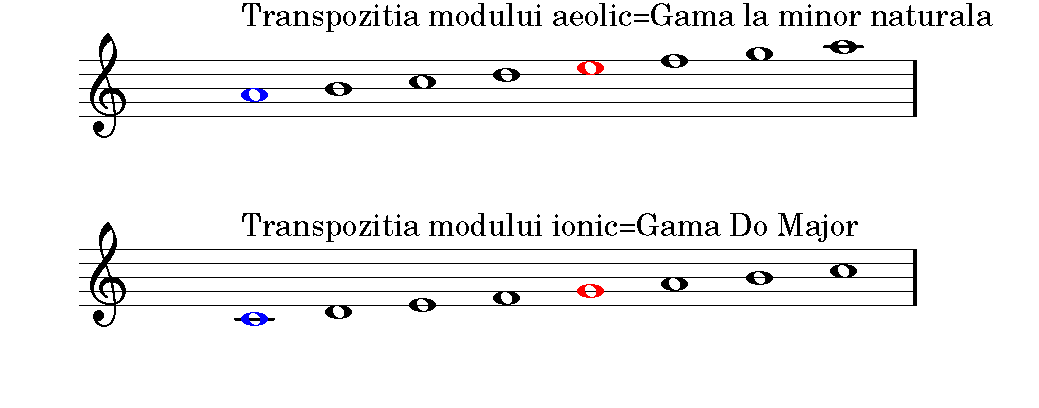 Gregorian Chant Modes2